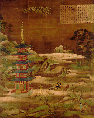 Zenmui (善無畏), one of the Divinely inspired Reception of the Two Great Sutras (絹本著色両部大経感得図, kenpon chakushoku ryōbu daikyō kantoku zu). Two hanging scrolls, 177.8 cm x 141.8 cm. Color on silk. Located in the Fujita Art Museum, Osaka. The scroll has been designated as National Treasure of Japan in the category paintings.